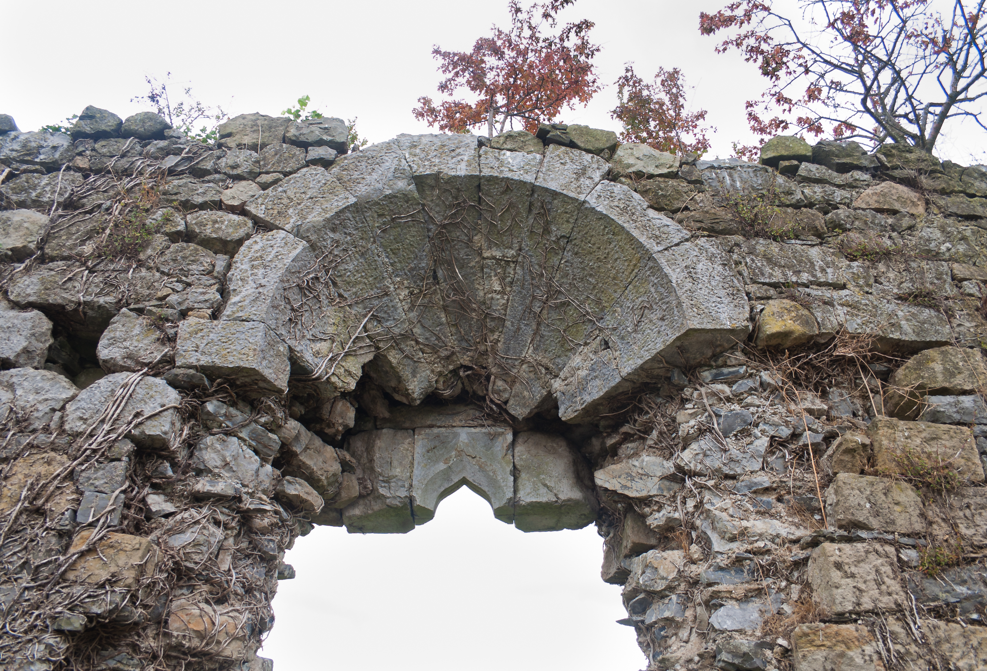 Single-light ogee-headed window in the north wall of the nave.